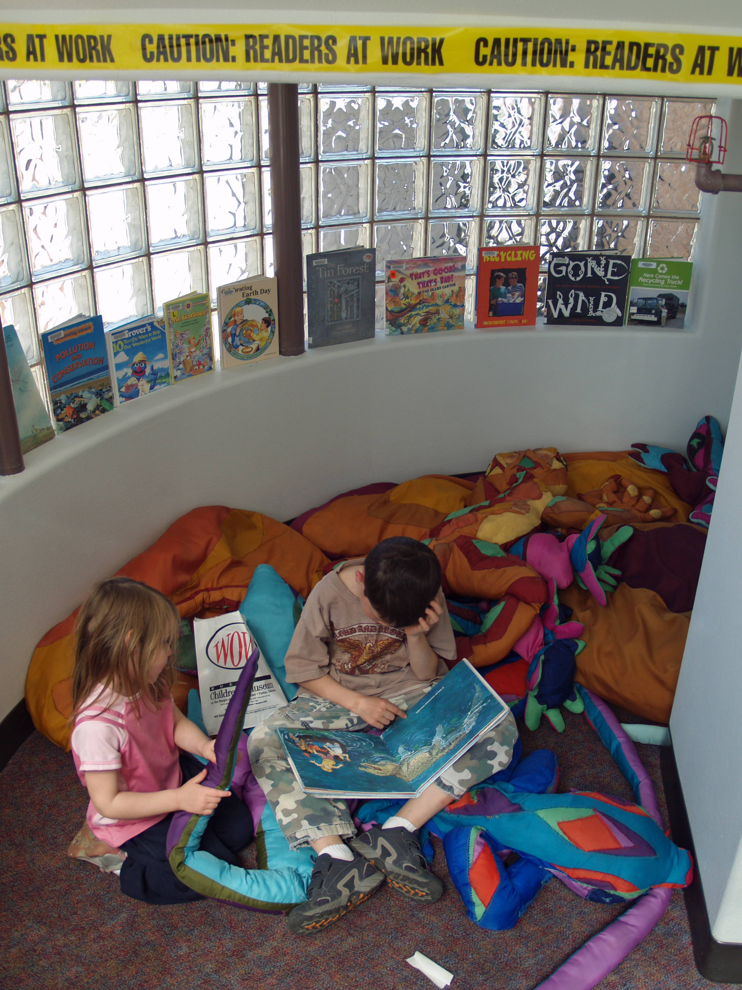 Children Reading at the Buell Children's Museum in Pueblo, Colorado.